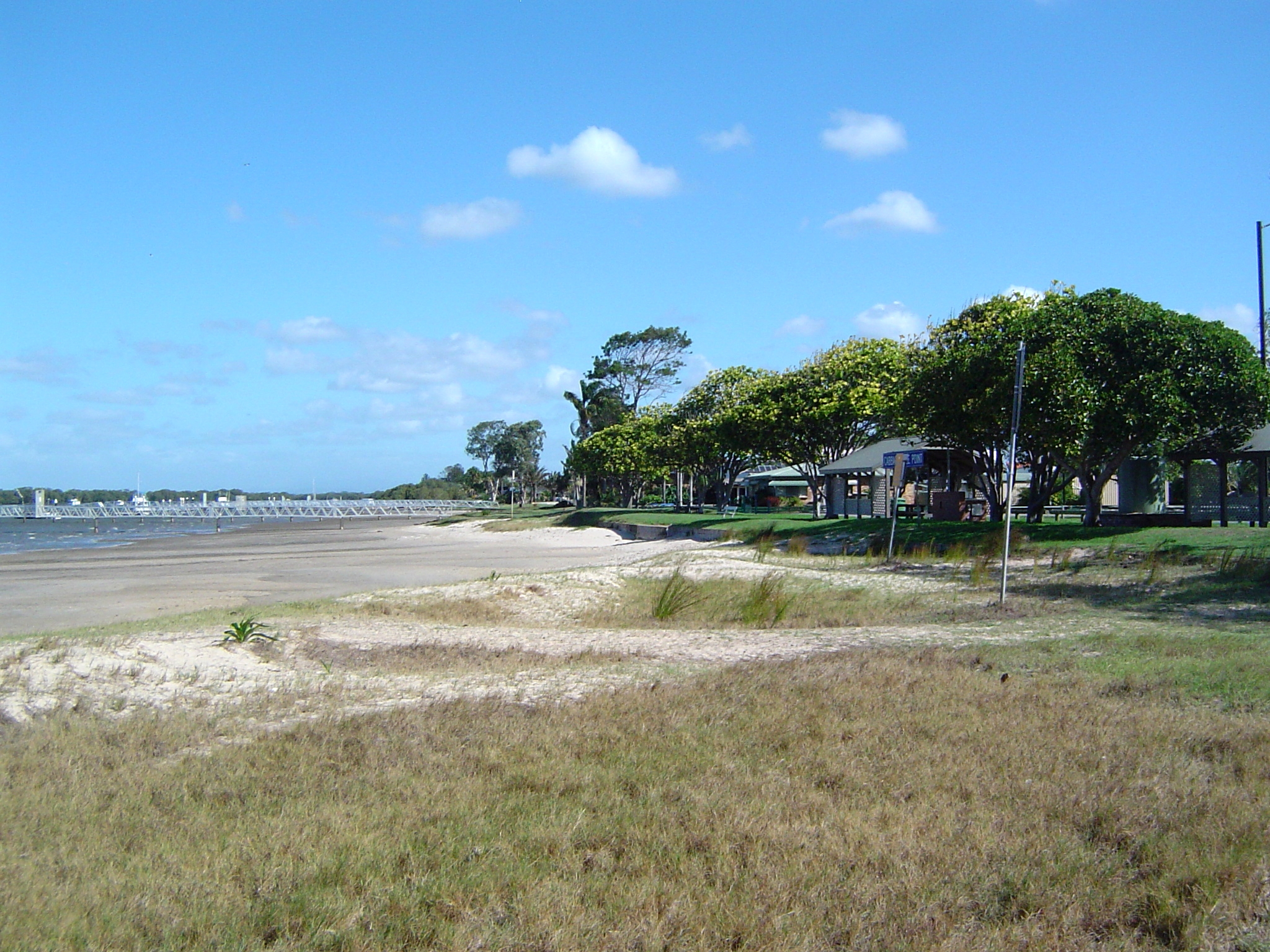 Photo of Cabbage Tree Point foreshore and Tipplers Passage at Steiglitz, Queensland, Australia